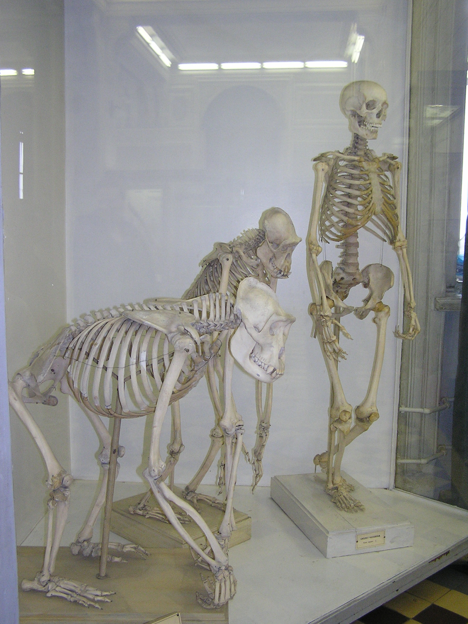 Zoological Museum in St. Petersburg. Skeletons of primates. From left: Gorilla gorilla, Pan spec., Homo sapiens